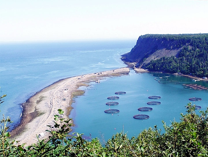 Dark Harbour, Grand Manan, New Brunswick, Canada. the circular structures are salmon aquaculture holding pens. Dark Harbour is also a major production site for dulse and other edible seaweeds